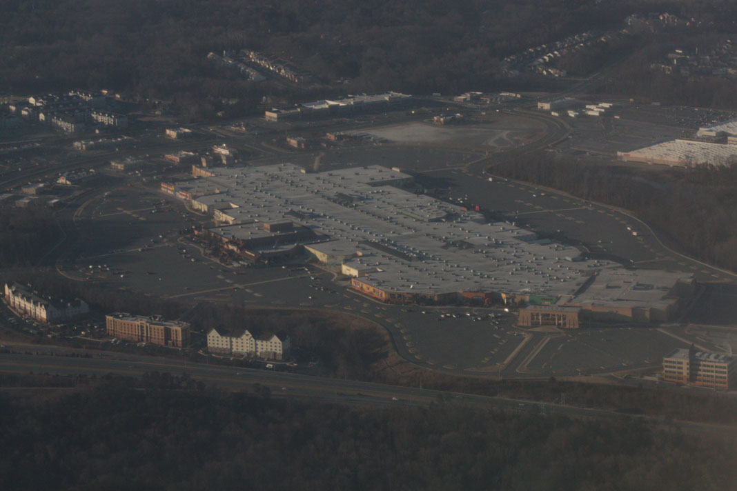 Oblique air photo of Arundel Mills Mall, Anne Arundel County, MD. Rt 100 in foreground. Facing south. January 17, 2009.